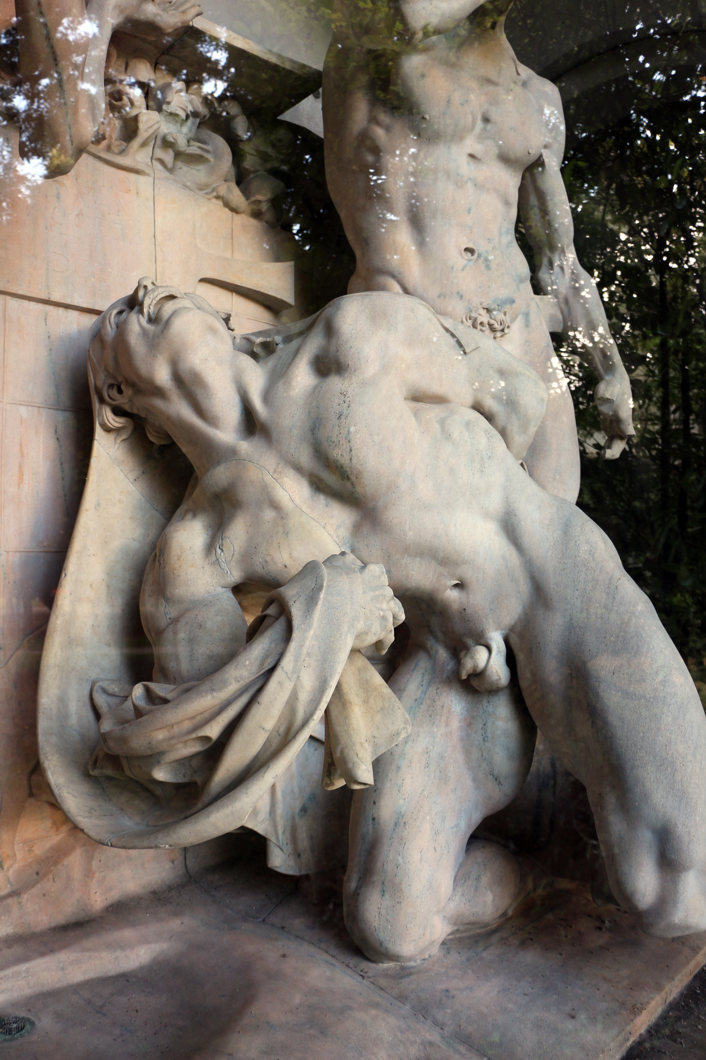 Villa Reale (Milan)